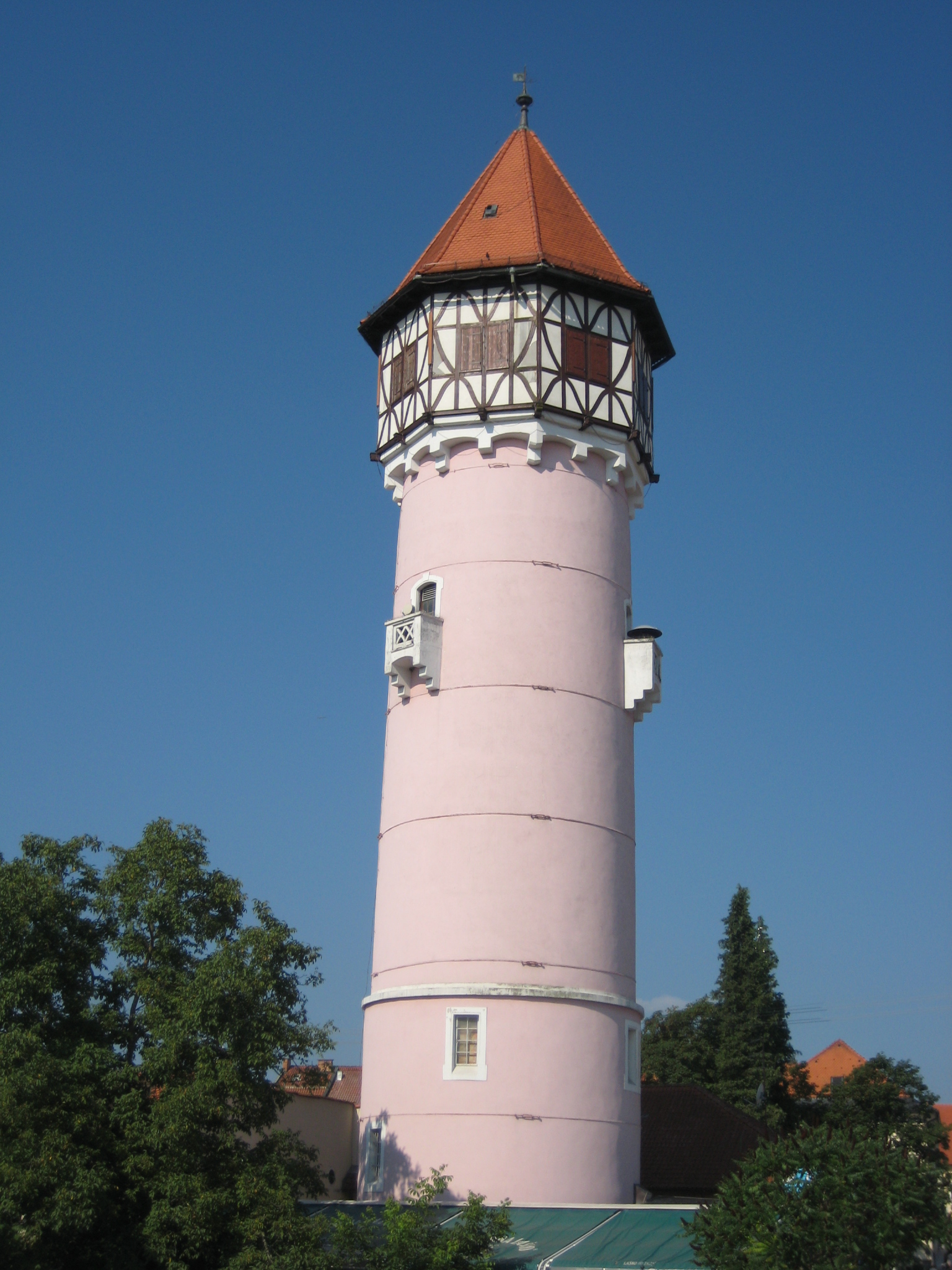 Brežice, town in Slovenia. Aqueduct tower.